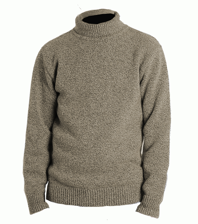 A polo-neck pullover